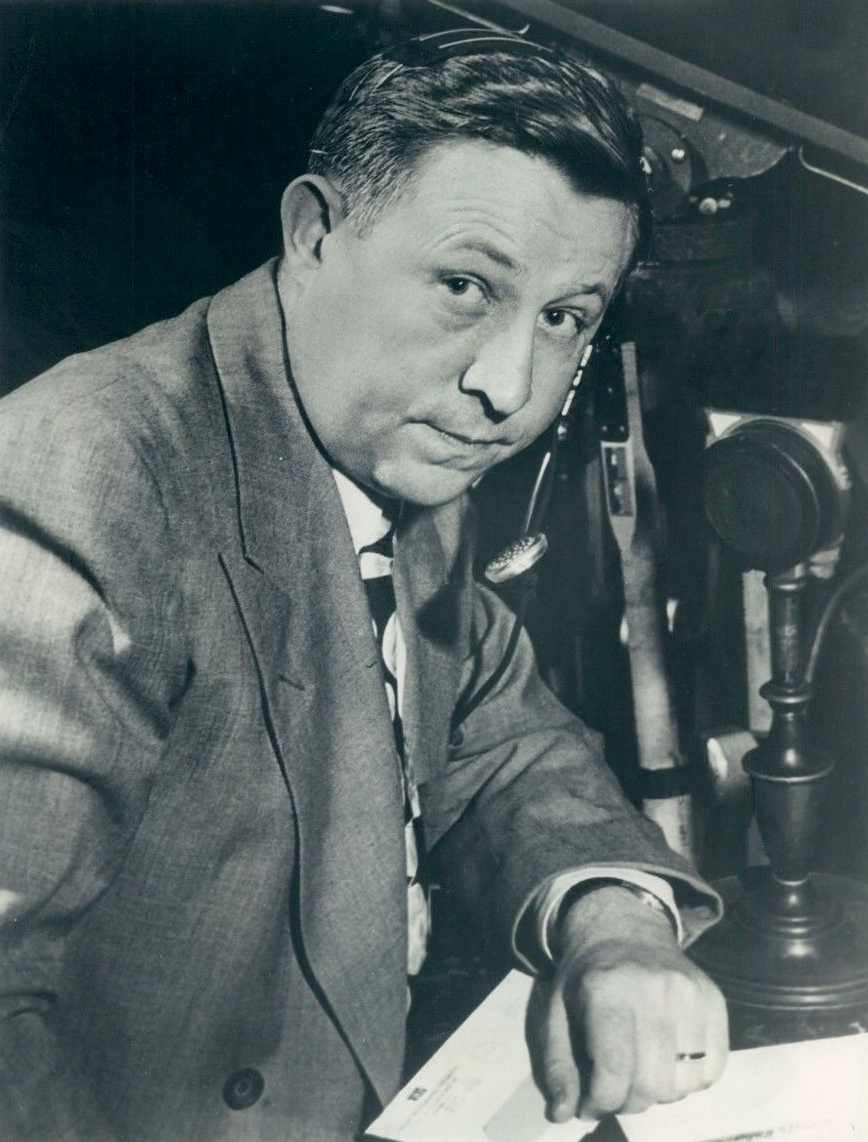 1955 Press Photo Sportscaster Announcer Russ Hodges 1950s